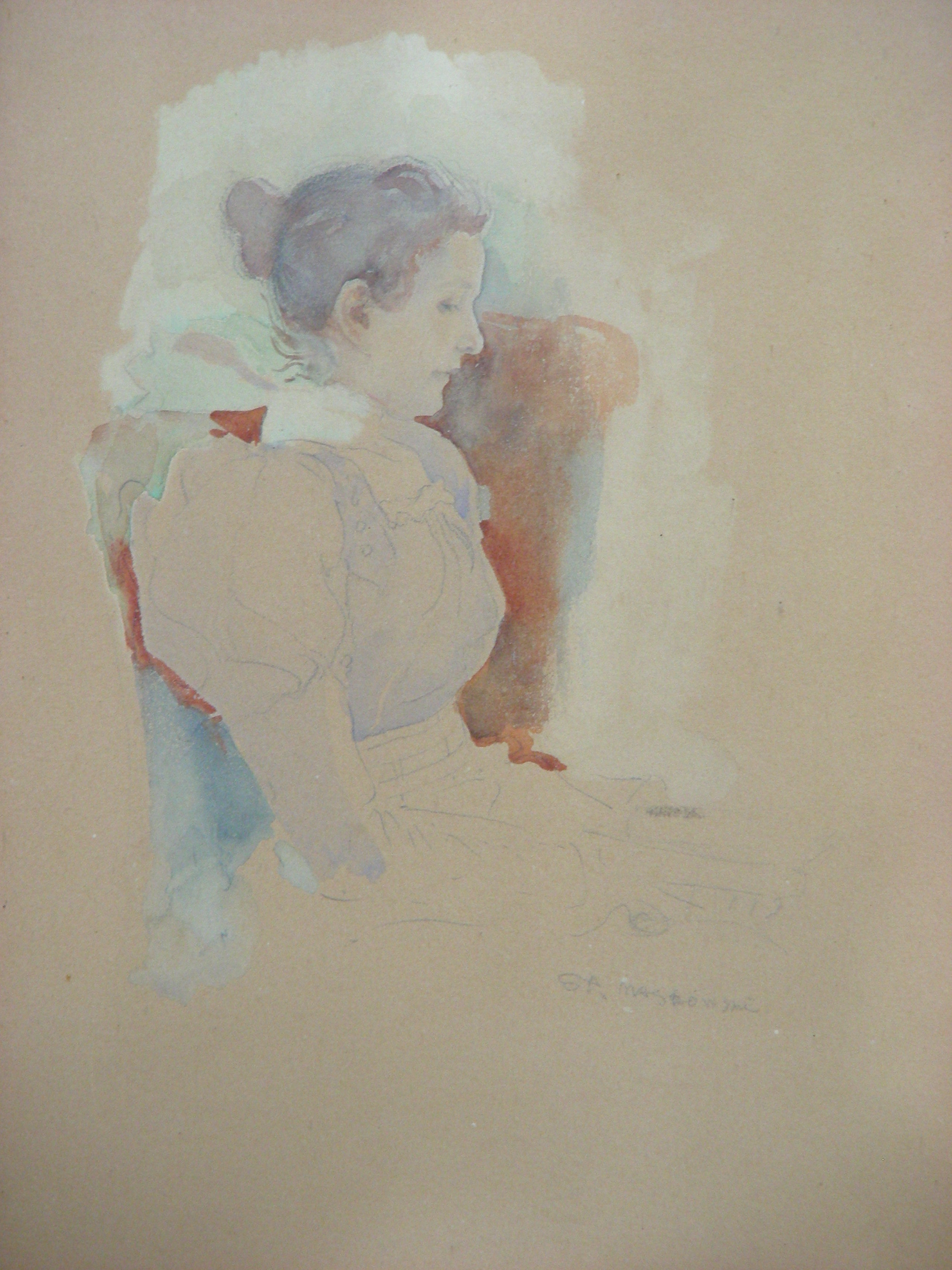 Stanislaw Maslowski (1853-1926), Artist's Wife Portrait, 1897, water-colour on paper, 25x34 cm